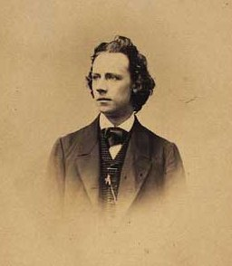 Harald Johan Caspar Paetz (1837-1895), Danish actor and photographer